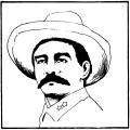 Javier_de_la_Vega_Basulto